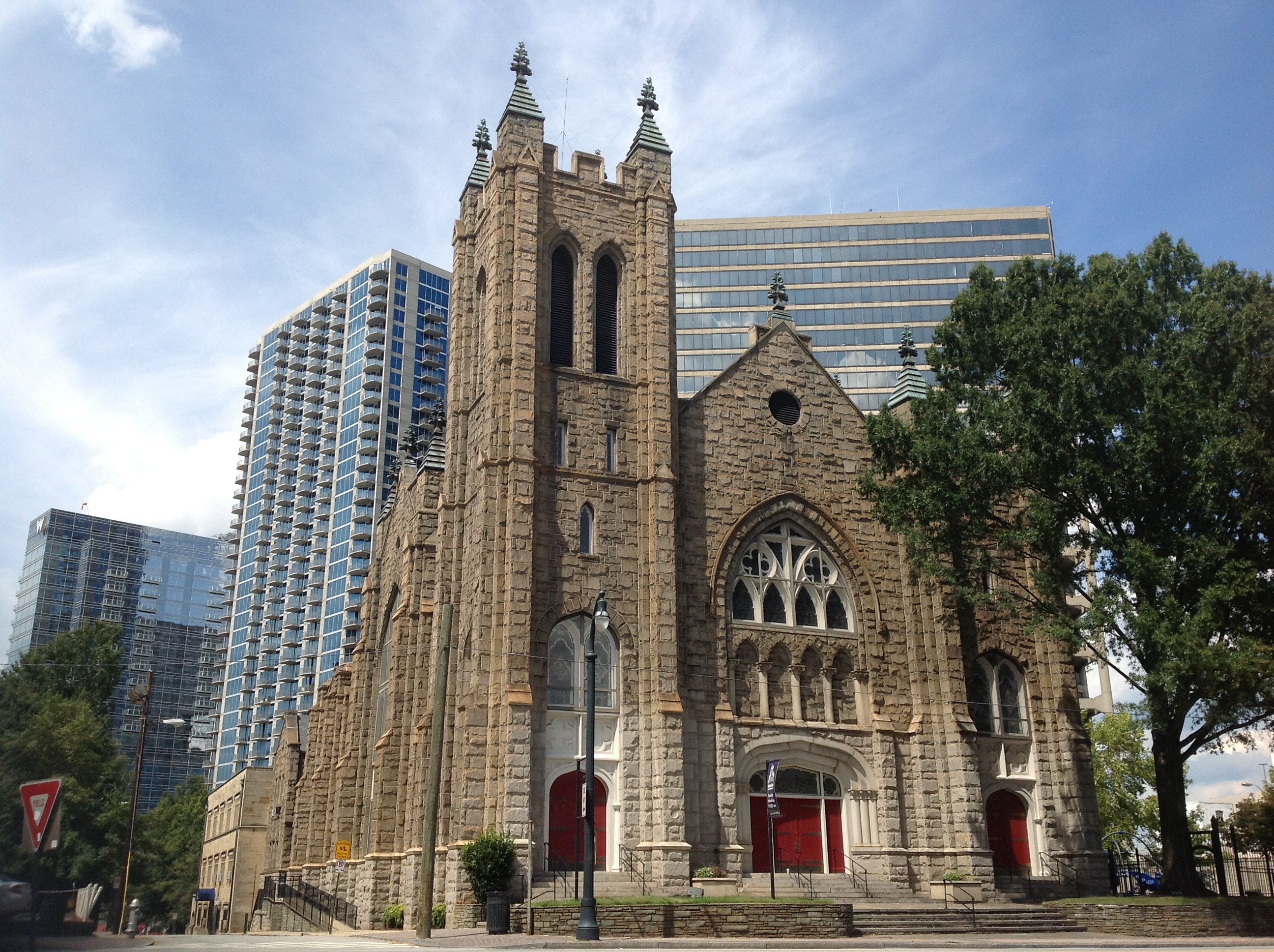 Image of the First Episcopal Church in Atlanta, Georgia.